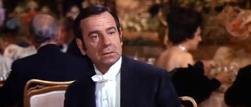 Screenshot of Walter Matthau from the trailer for the film Hello, Dolly! (film)